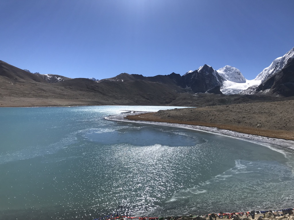 Gurudongmar Lake in Late October.